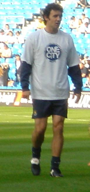 Christian Dailly warming-up before match at City Of Manchester Stadium